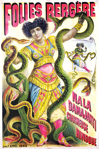 Promotional poster for appearance of snake charmer Nala Damajanti at the Folies Bergère, probably from 1886.